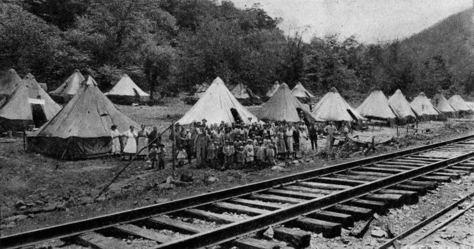 Residents of Holly Grove mining tent colony in West Virginia during the Paint/Cabin Creek strike from 1912-1913.